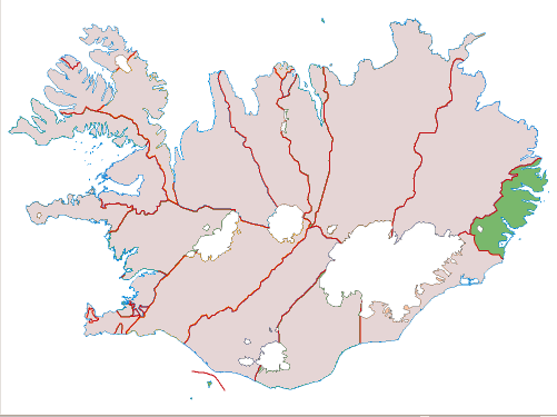 A map of the county Suður-Múlasýsla in Iceland. Based on a map from the National Land Survey of Iceland. No copyright protedtion on the original map. "Á þessari síðu eru sett fram nokkur kort sem heimilt er að nota í ýmsum tilgangi, án sérstaks leyfis frá stofnuninni. Fleiri kort munu bætast við á næstunni. Smelltu á kortið og þú færð upp stærri mynd.